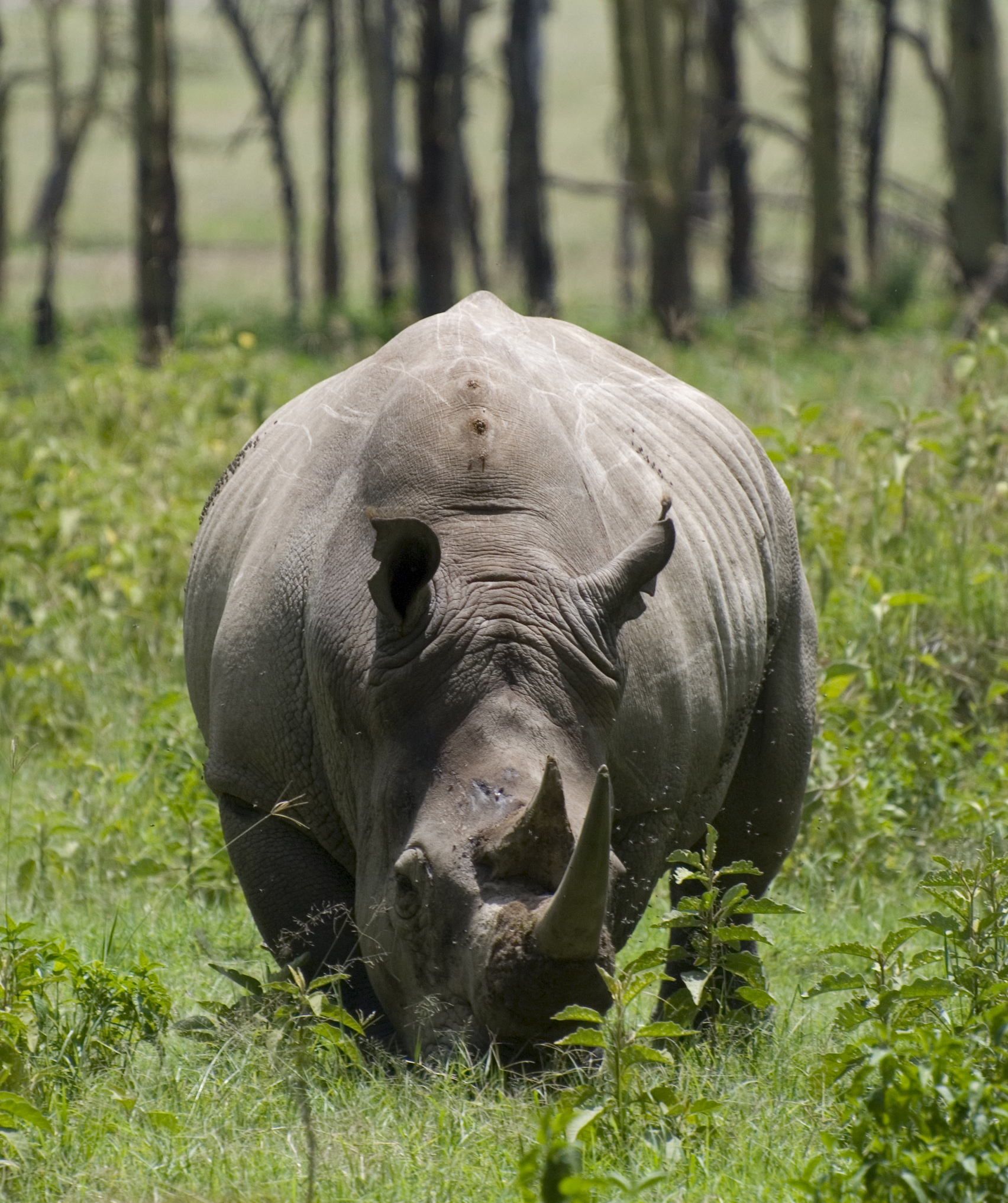 White rhinoceros (Ceratotherium simum), Lake Nakuru National Park, Kenya